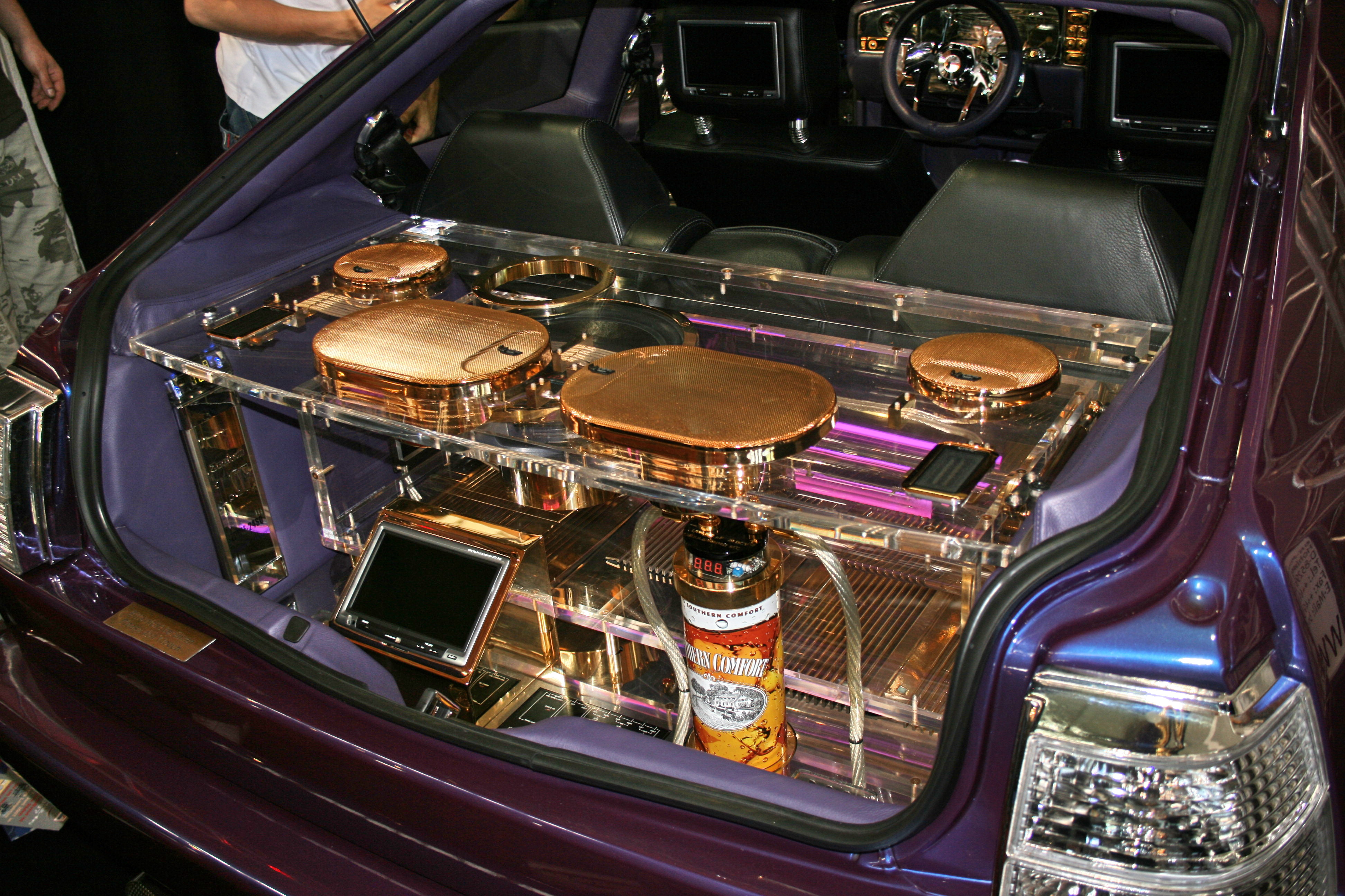 Audio Equipment in a Car